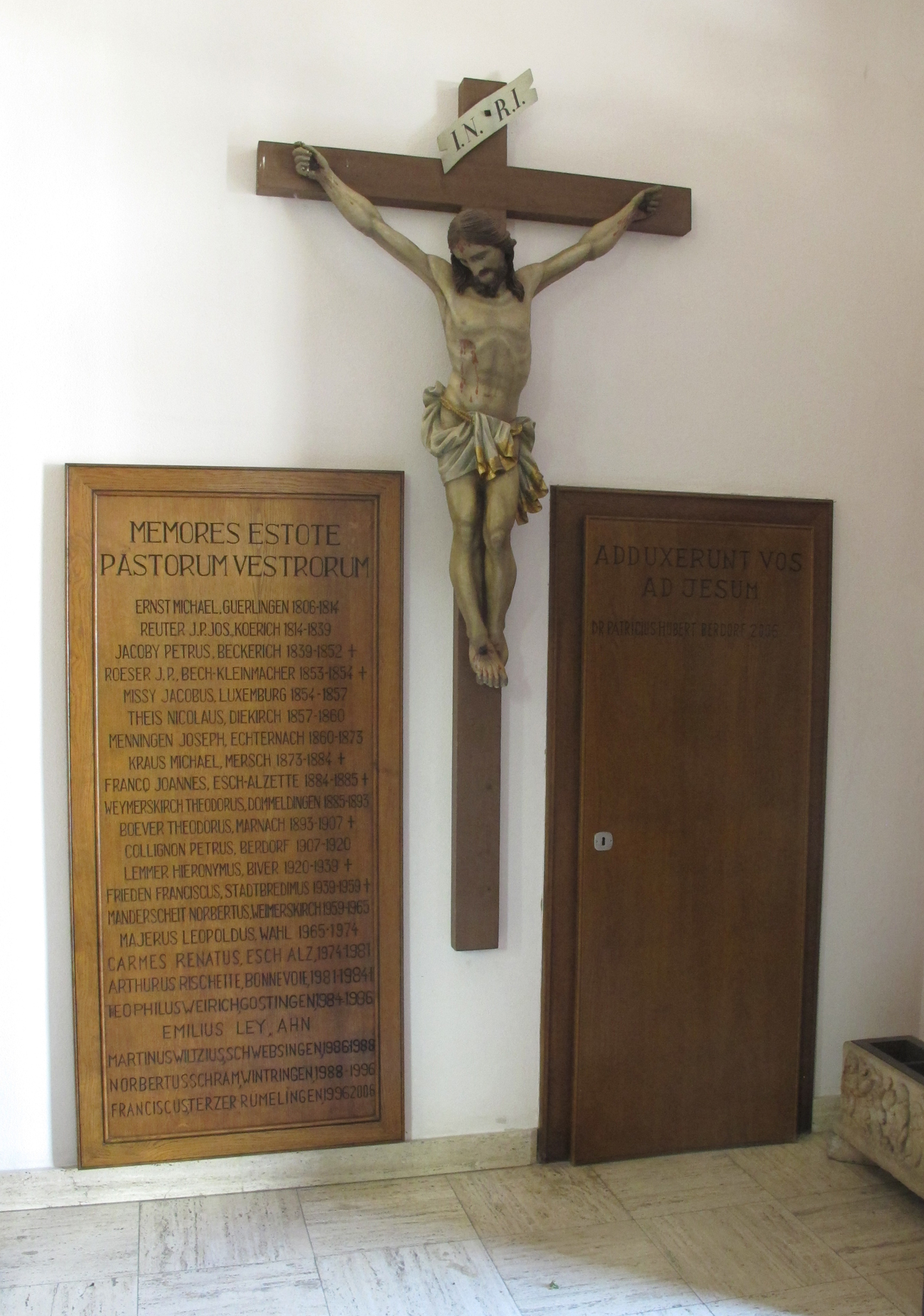 Board with the list of pastors since 1806 in the entrance of the church in Schwebsange, Luxembourg